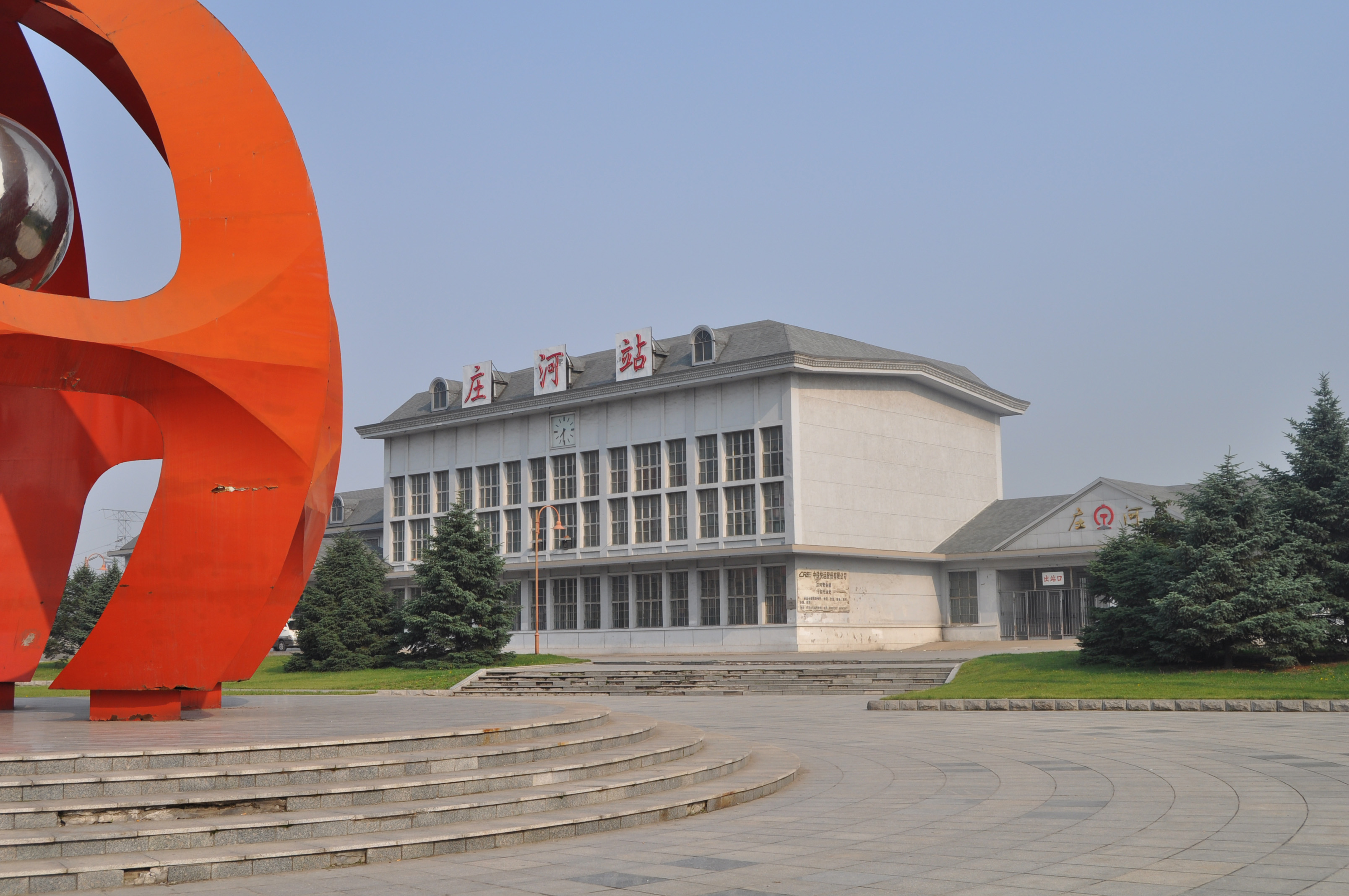 Zhuanghe Railway Station, Dalian, Liaoning, China